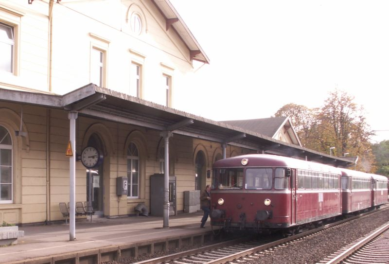 fotographed by me